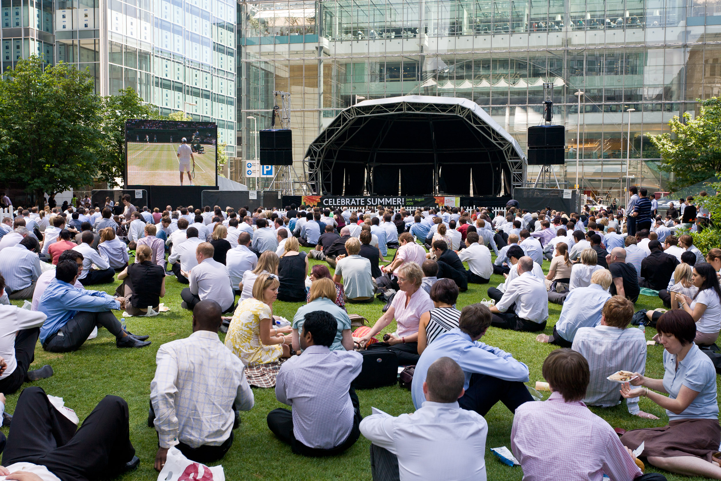 Canada Square in Canary Wharf, London, England. A TV screen is often set up on the square in the summer for sporting events (such as Wimbledon in this case).